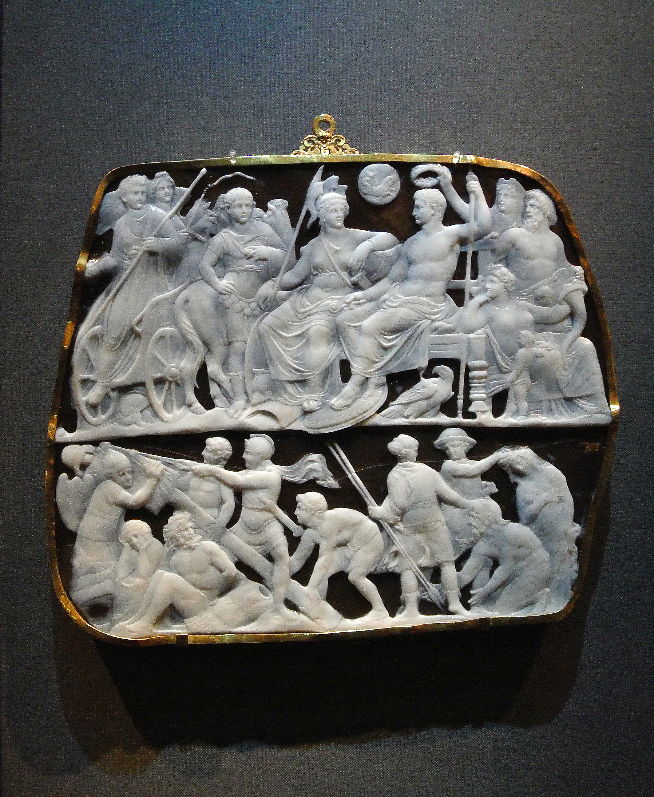 Roman cameo, early imperial era. A depiction of Emperor Augustus surrounded by goddesses and allegories.